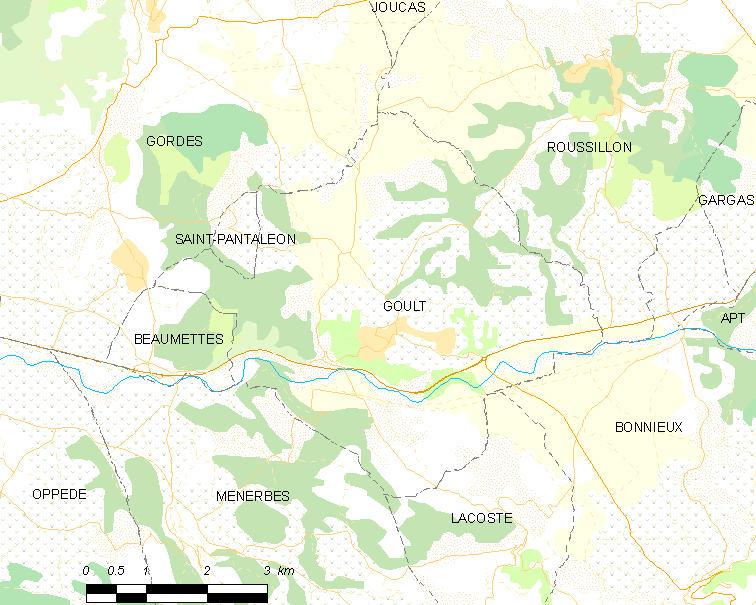 Map of French municipality Goult